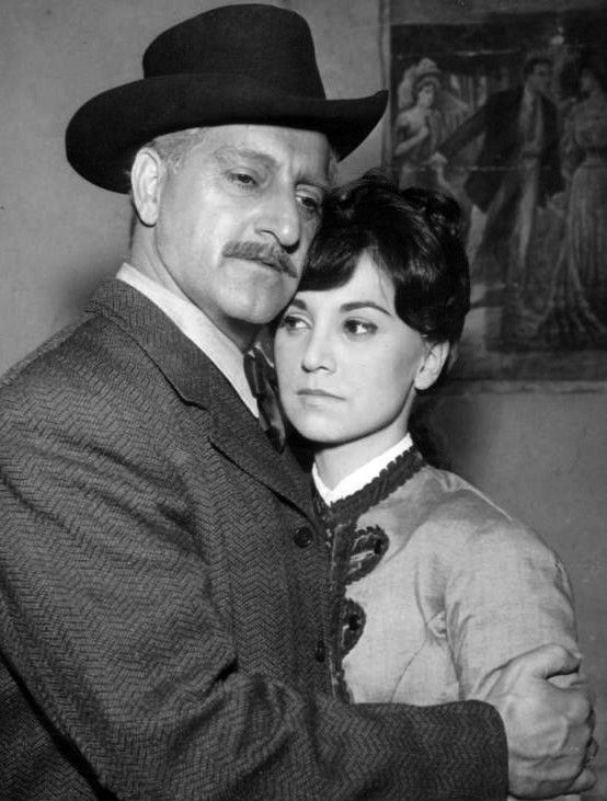 Publicity photo of Danny and daughter Marlo Thomas from the television show Zane Grey Theatre.